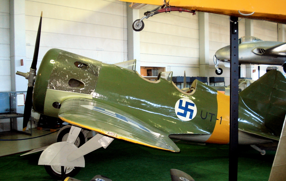 Polikarpov UTI-4, two seater training version of I-16 Soviet fighter. Displayed in Helsinki Aviation Museum, with Finnish markings.